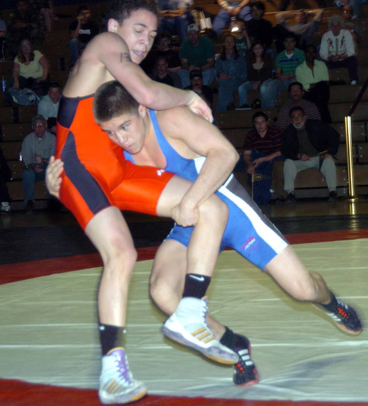 March 29, 2005 Two-time Arizona high school state champion Henry Cejudo (right), a reigning Colorado prep state champion, forces two-time North Carolina high school state champion Colten Palmer out of the circle during an All-Army vs. Team USA wrestling exhibition March 17 at Fort Carson's Special Events Center.